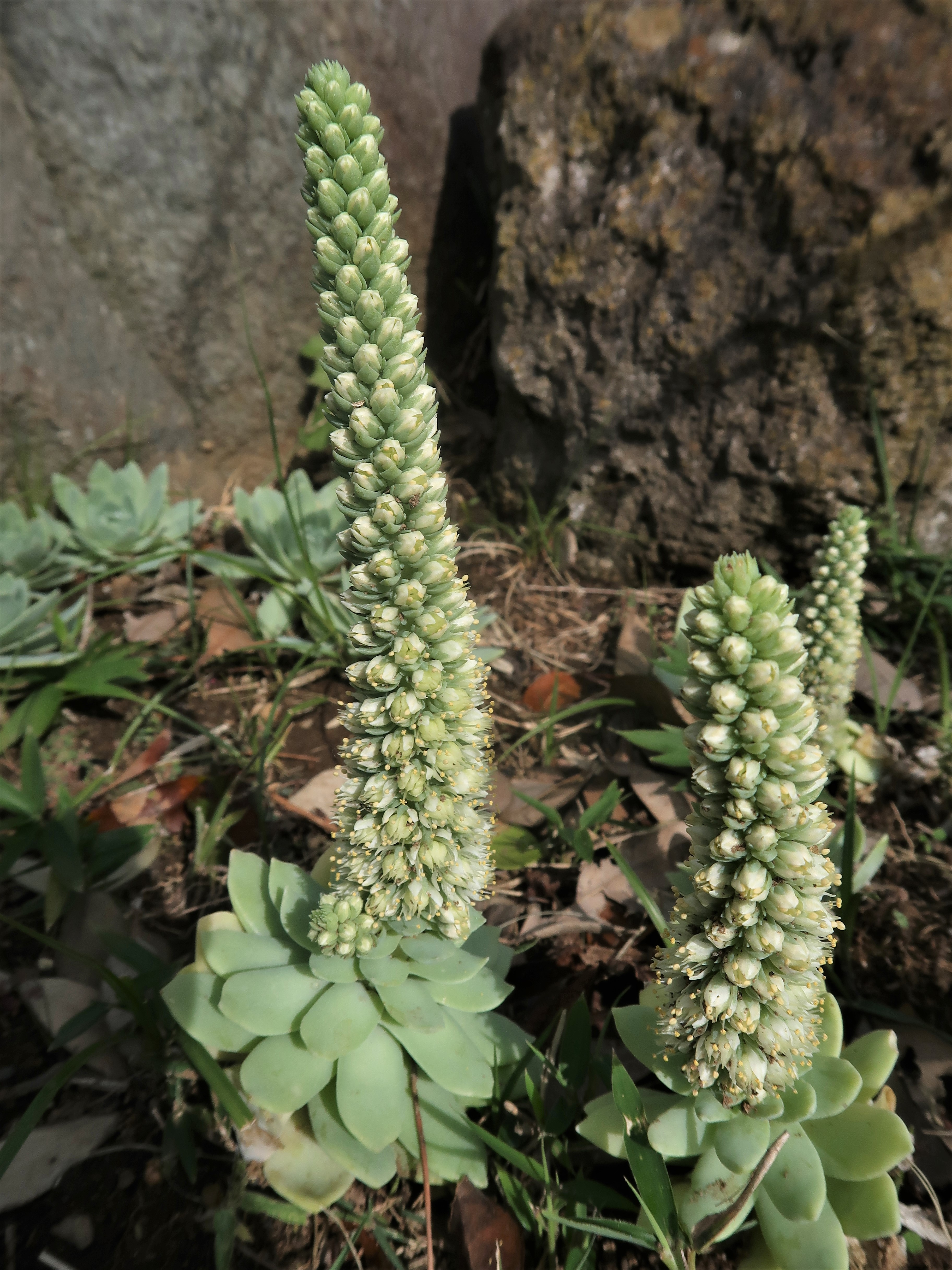 Orostachys malacophylla var. iwarenge, Hitachi-Naka city, Ibaraki pref., Japan